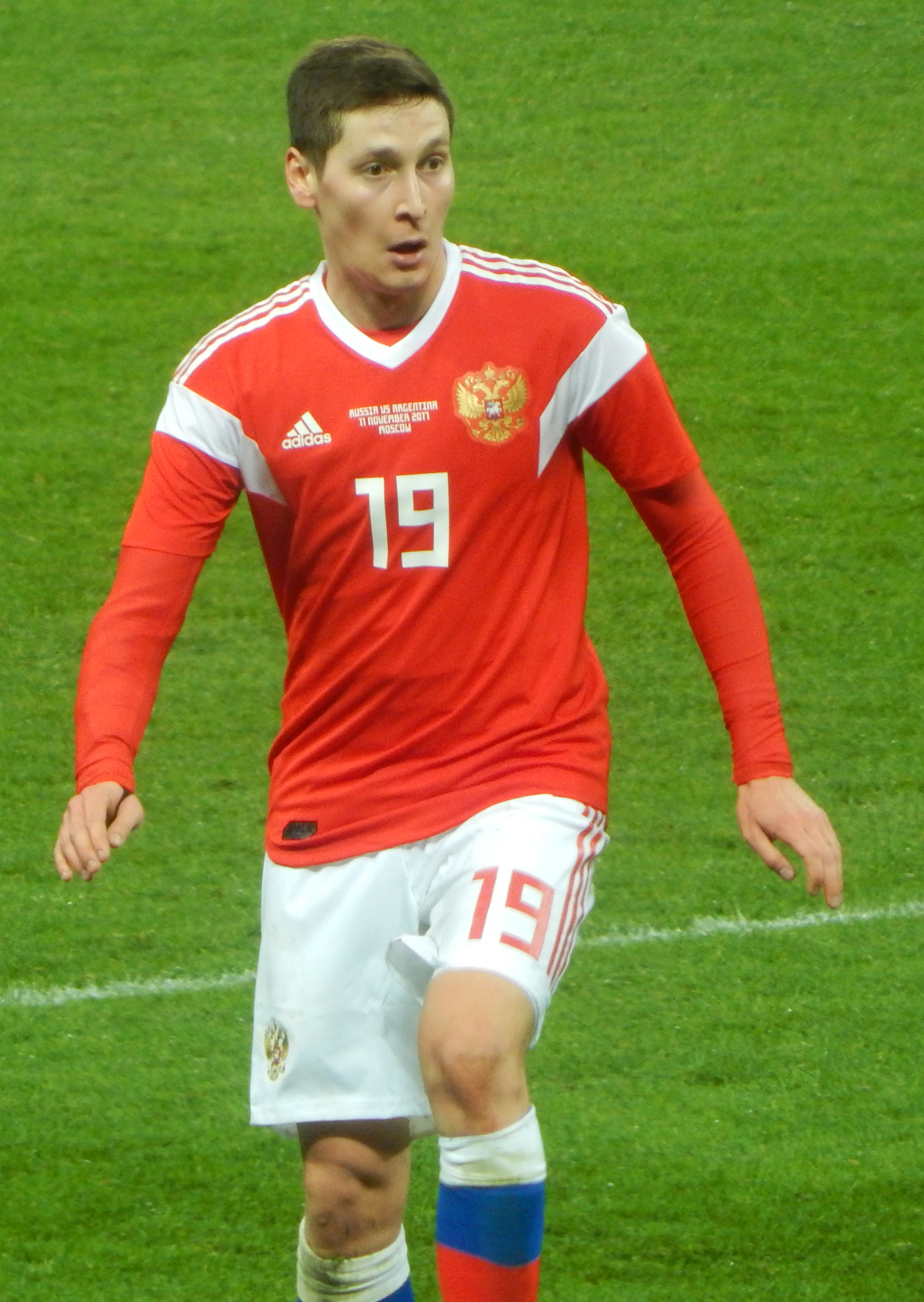 A friendly match between Russia and Argentina in Moscow, Luzhniki stadium, on November 11, 2017.